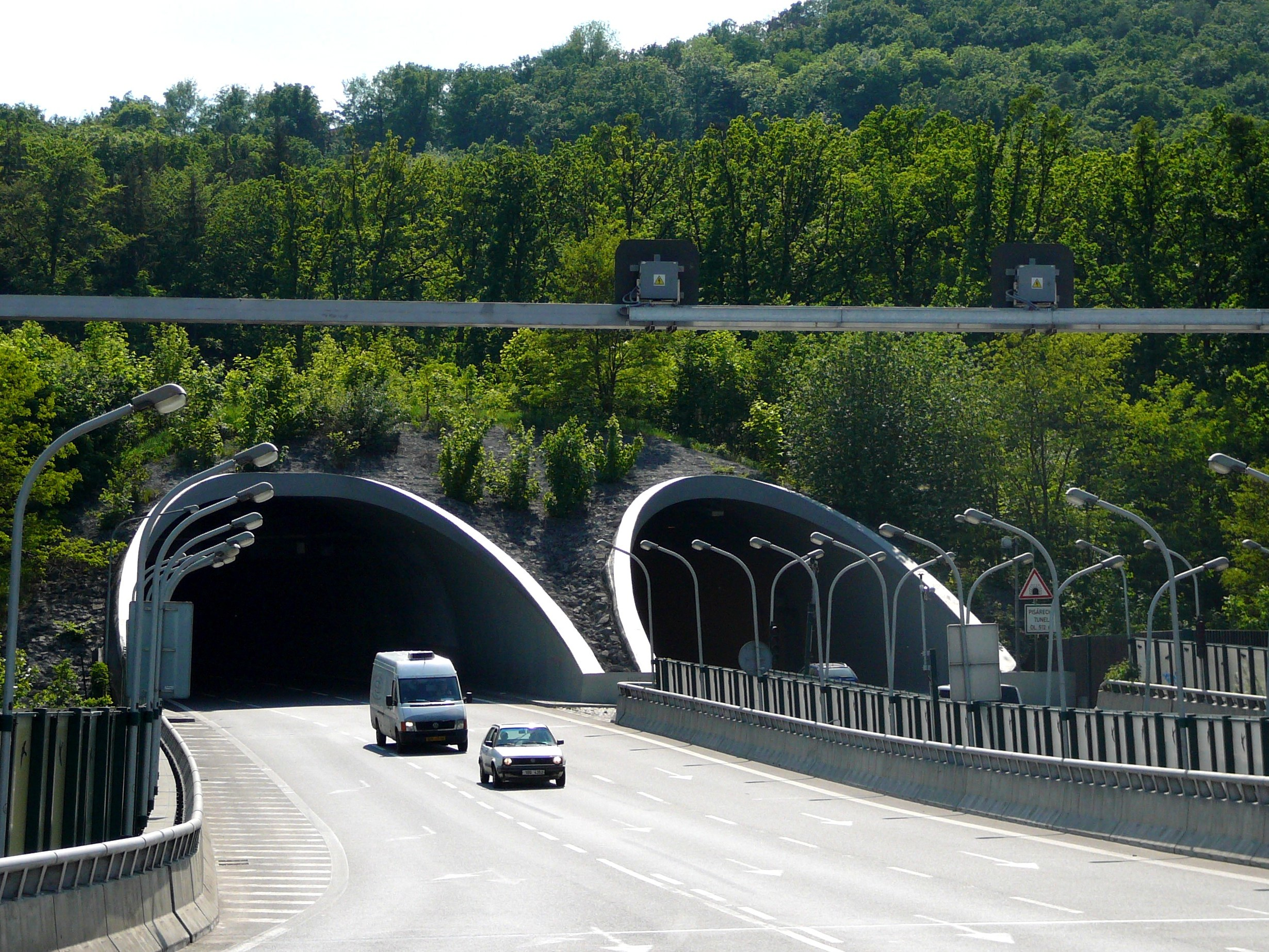 Pisárky Tunnel